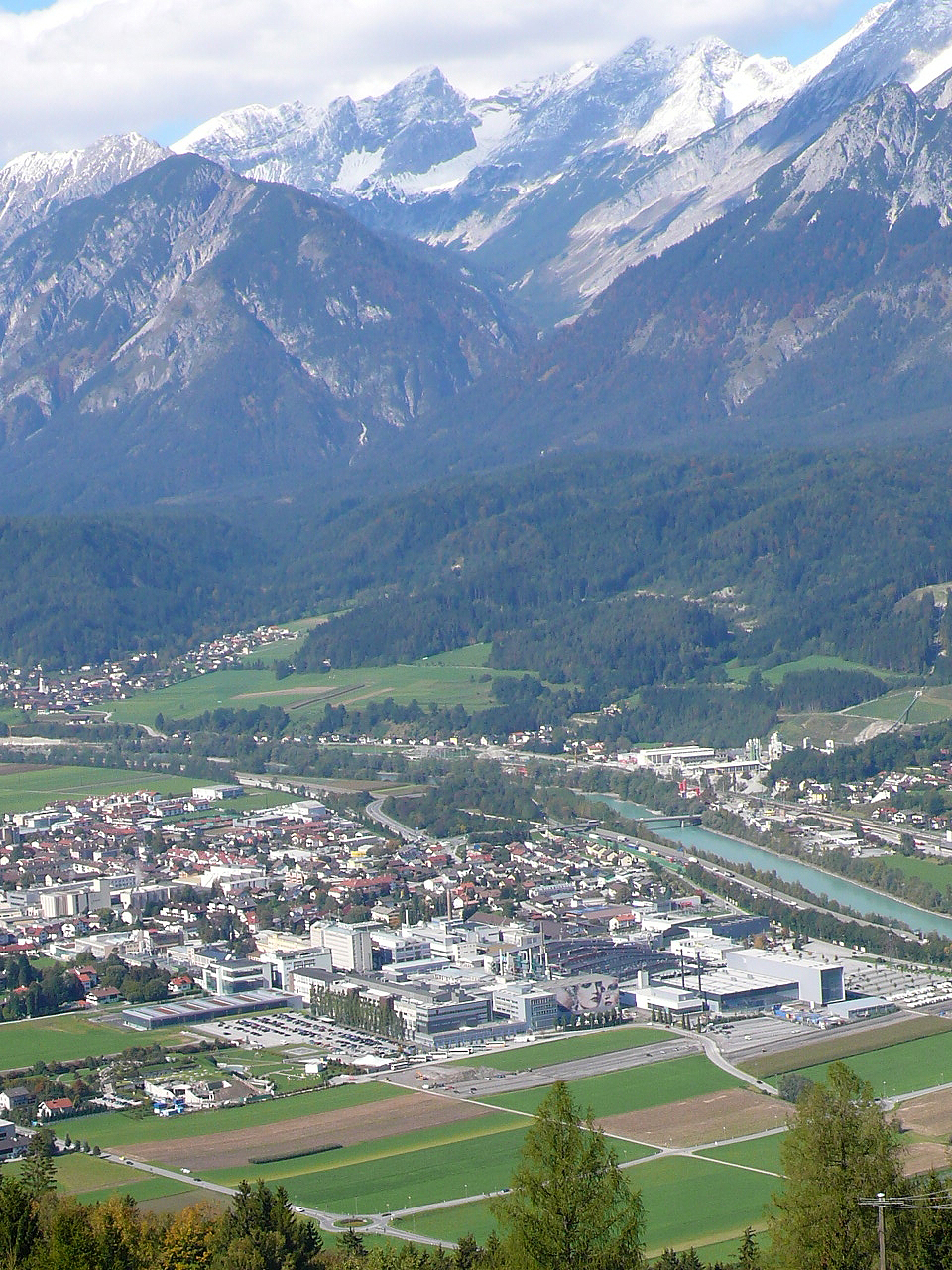 Swarovski_Crystal_headquarter_in_Wattens_Austria; in the background the Karwendel with the Halltal